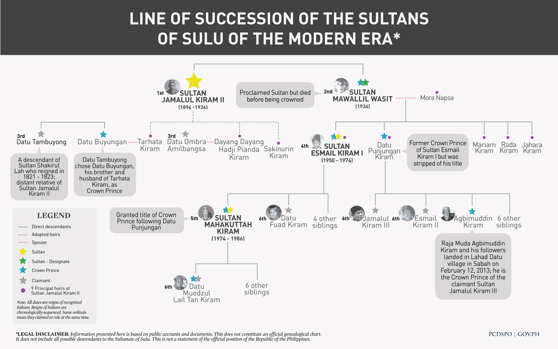 Genealogical Chart of the Sultans of Sulu